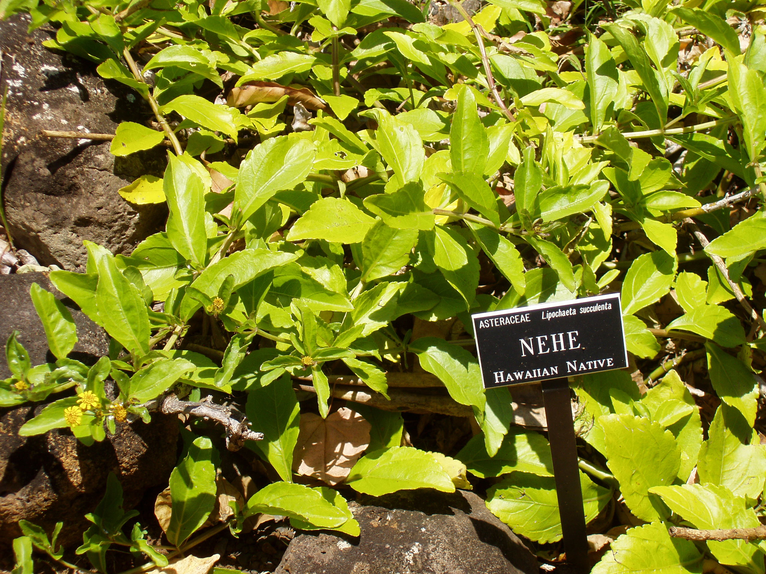 Lipochaeta succulenta, growing in Limahuli Garden and Preserve, Kauai, Hawaii.